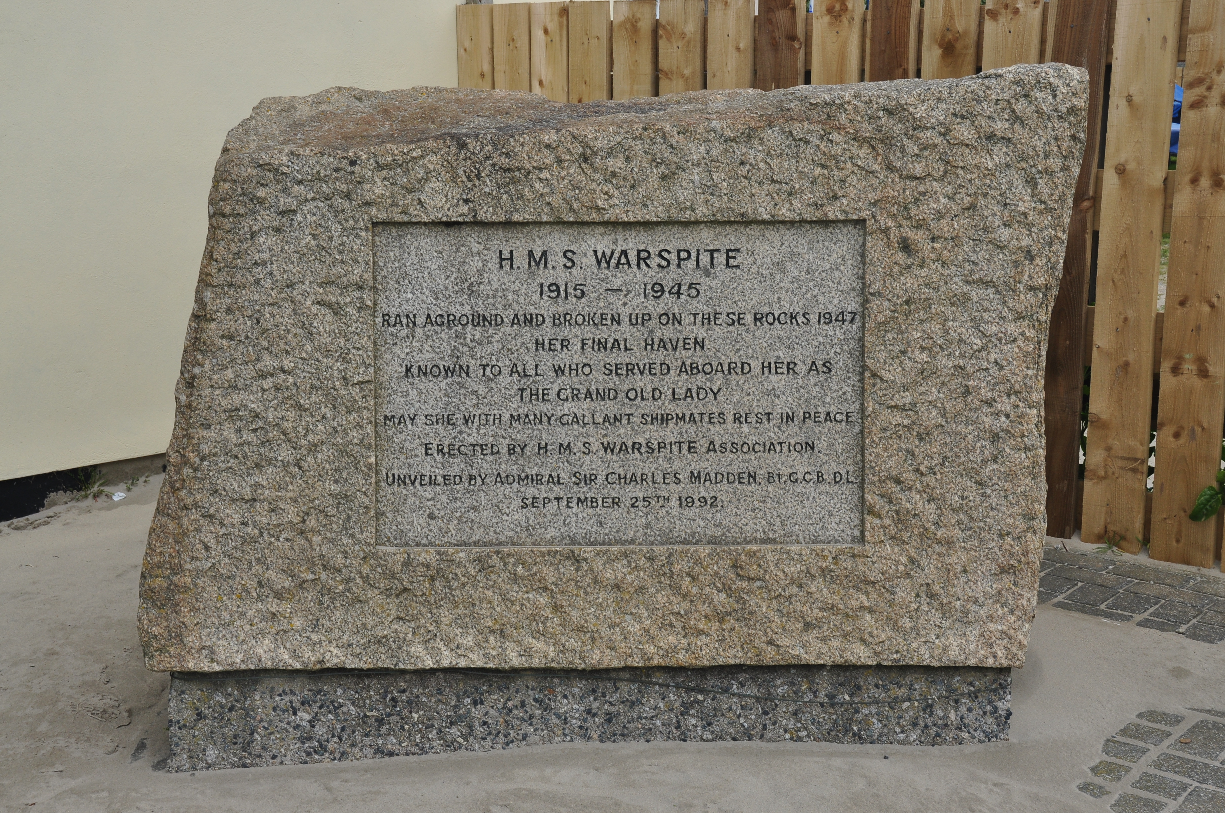 HMS Warspite memorial in Marazion